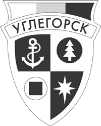 Uglegorsk (Sakhalin oblast), coat of arms (b&w)